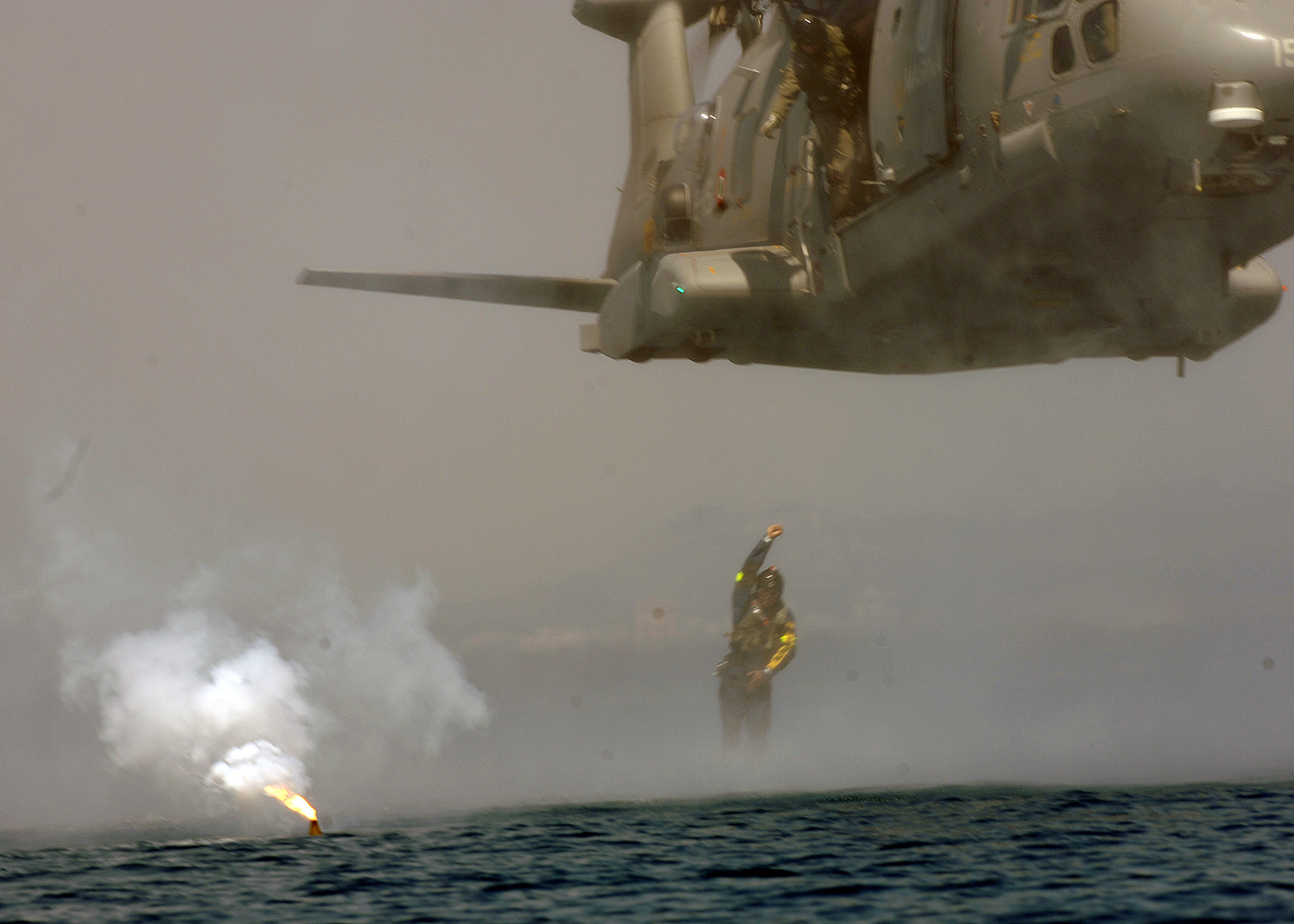 Gulf of Taranto, Italy (June 24, 2005) - A diver assigned to the Italian Submarine Parachute Advisory Group (SPAG) jumps out of an EH-101 Shark helicopter to assist Sailors that escaped from their submarine in the Submarine Escape and Immersion Equipment (SEIE) MK-10 suit during the North Atlantic Treaty Organization (NATO) submarine escape and rescue exercise Sorbet Royal 2005. Divers from various nations will work together to rescue submariners during the exercise in the Mediterranean. Twenty-seven participating nations, including 14 NATO nations will test their capabilities and interoperability. Four submarines with up to 52 crewmembers aboard will be placed on the bottom of the ocean, while rescue forces with rescue vehicles and systems work together to solve complex disaster rescue problems. U.S. Navy photo by Chief Journalist Dave Fliesen (RELEASED)